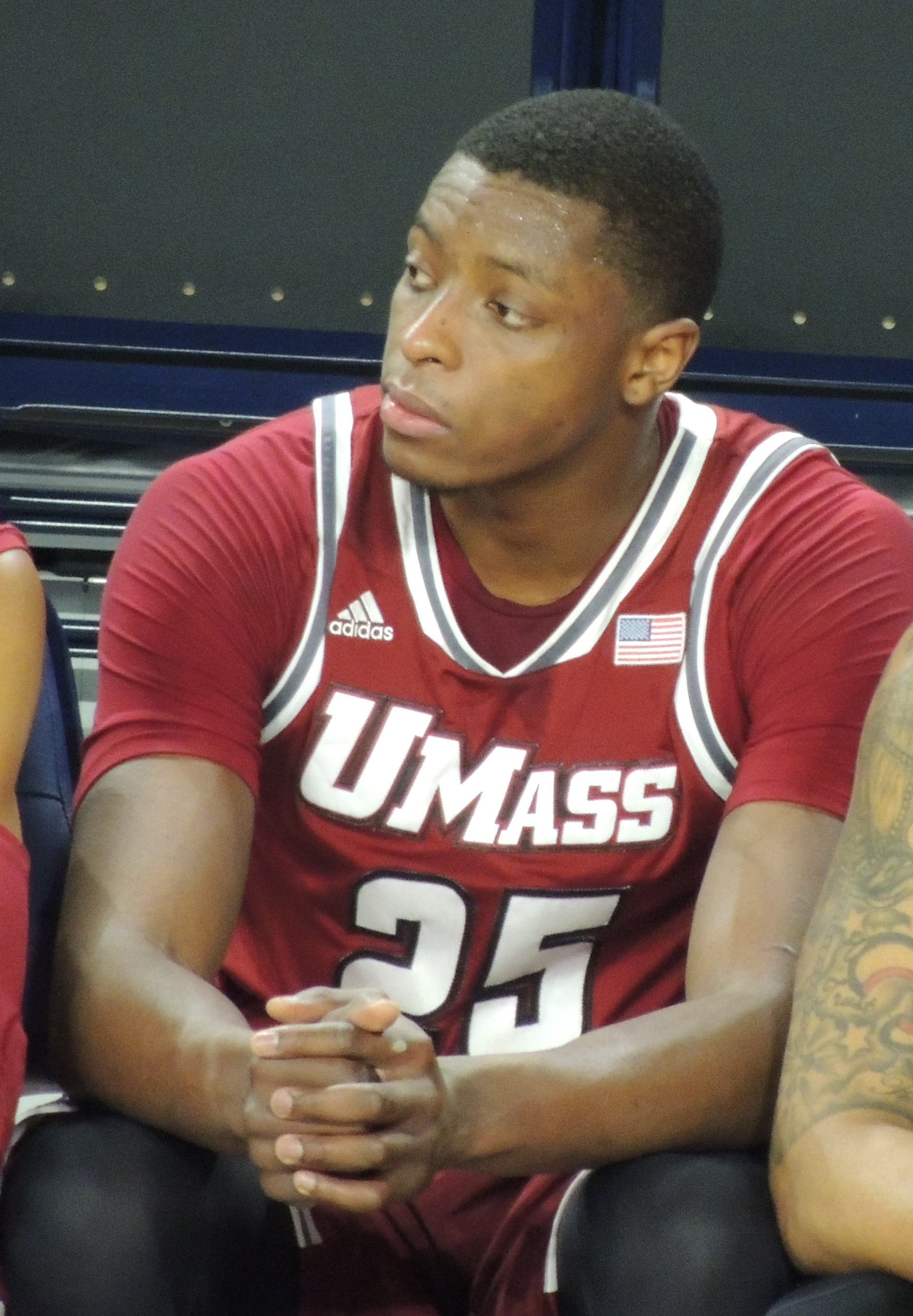 American basketball player Cady Lalanne